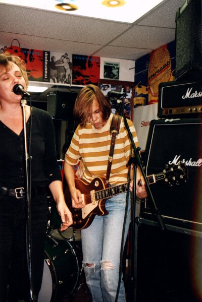 Linda Hopper (left) and Ruthie Morris (right) performing at an in-store concert with Magnapop at Secret Sounds in Bridgeport, Connecticut, United States on 1994-11-15